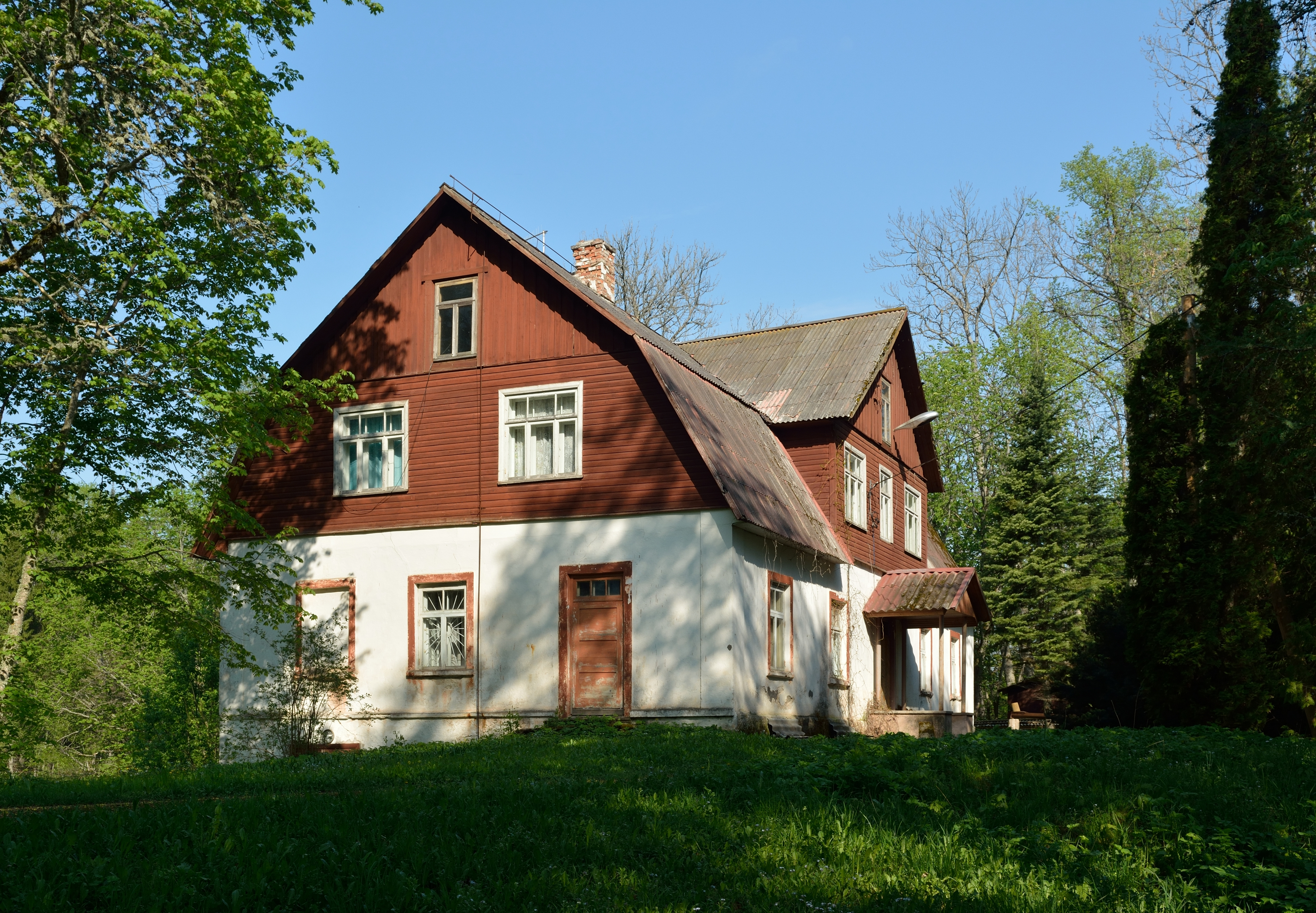 Tammiku manor steward's house